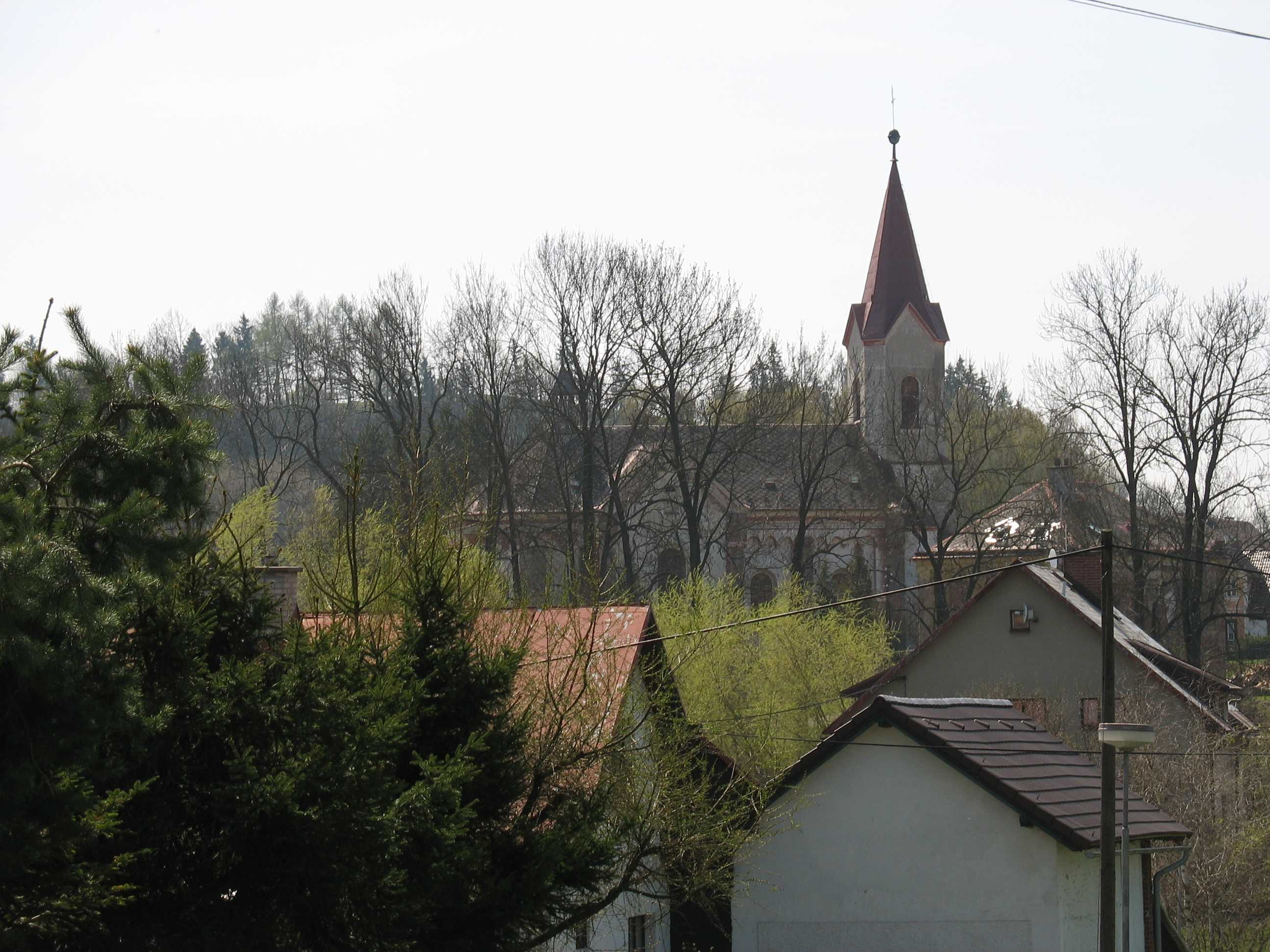 Church of St. George in Dolni Branná.